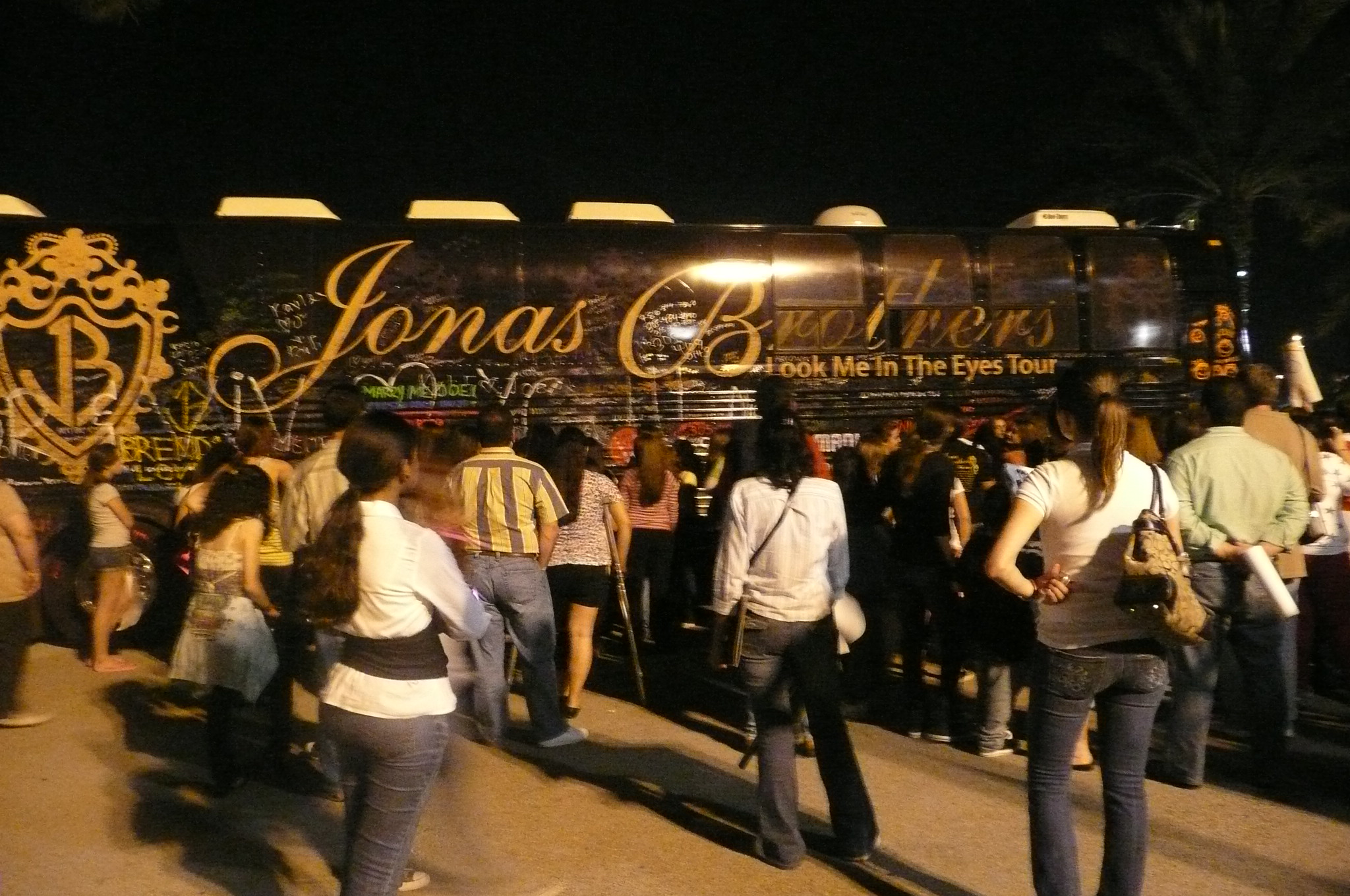 Jonas Brothers' tour bus for their Look Me In The Eyes Tour.